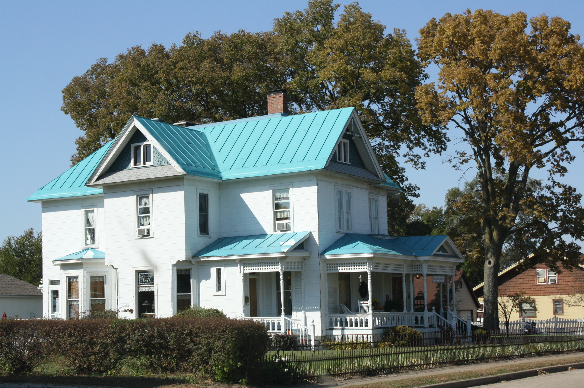 Looking north at the Frank Eugene Nichols House along Wisconsin Highway 35, listed on the National Register of Historic Places.